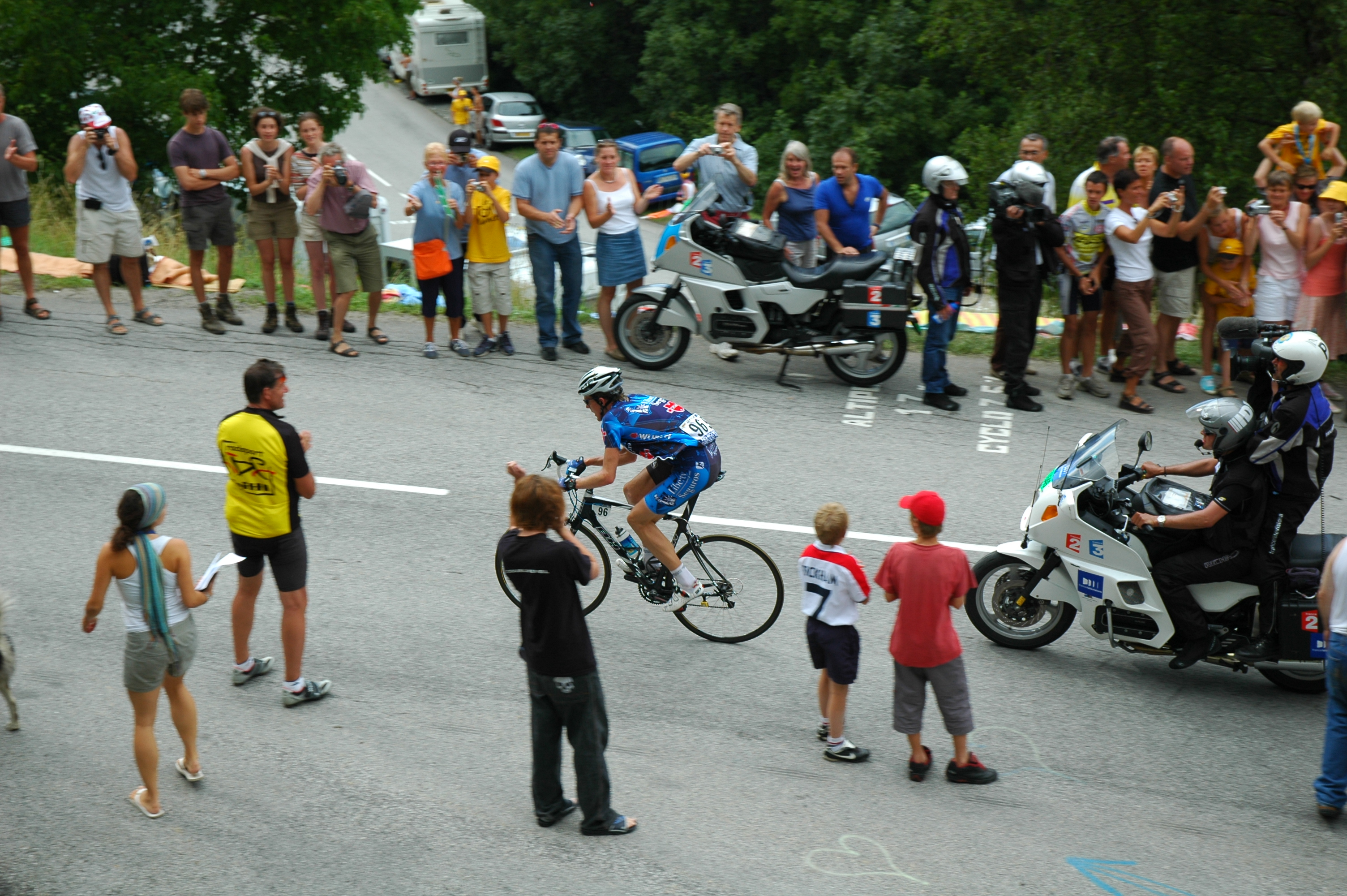 Jörg Jaksche of Liberty Seguros-Würth leads the race after breaking away. He didn't go on to win the stage, but ended up twelfth in the GC at the end of the day.